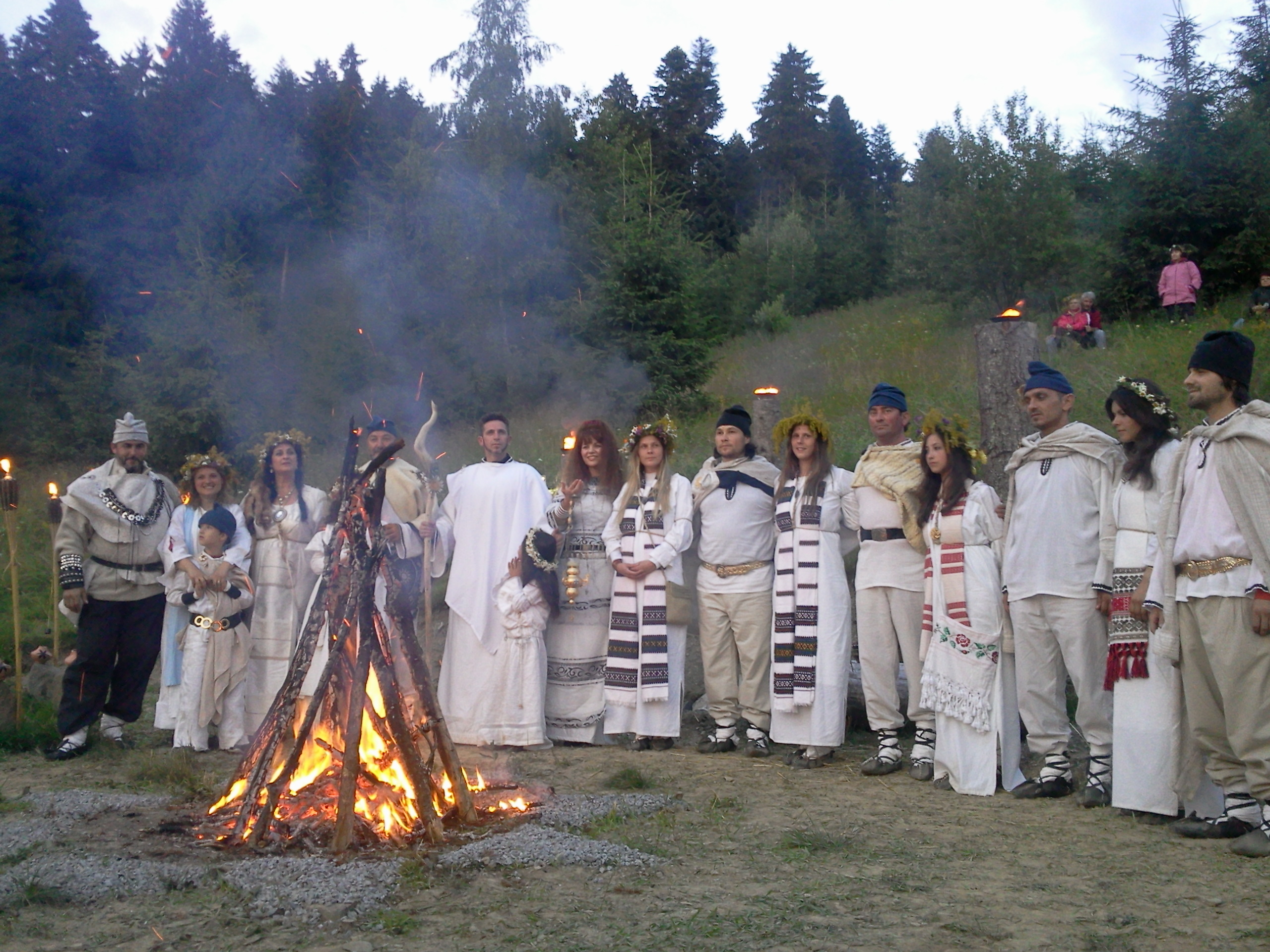 A modern ceremony of Dacian Sacred Fire in Romania